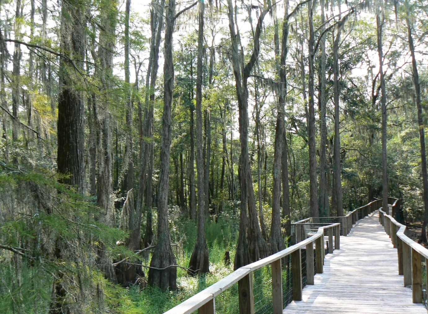 A boardwalk over Bald Cypress (Taxodium distichum) swamp forest habitat. At the Tallahassee Museum — in Tallahassee, Florida.